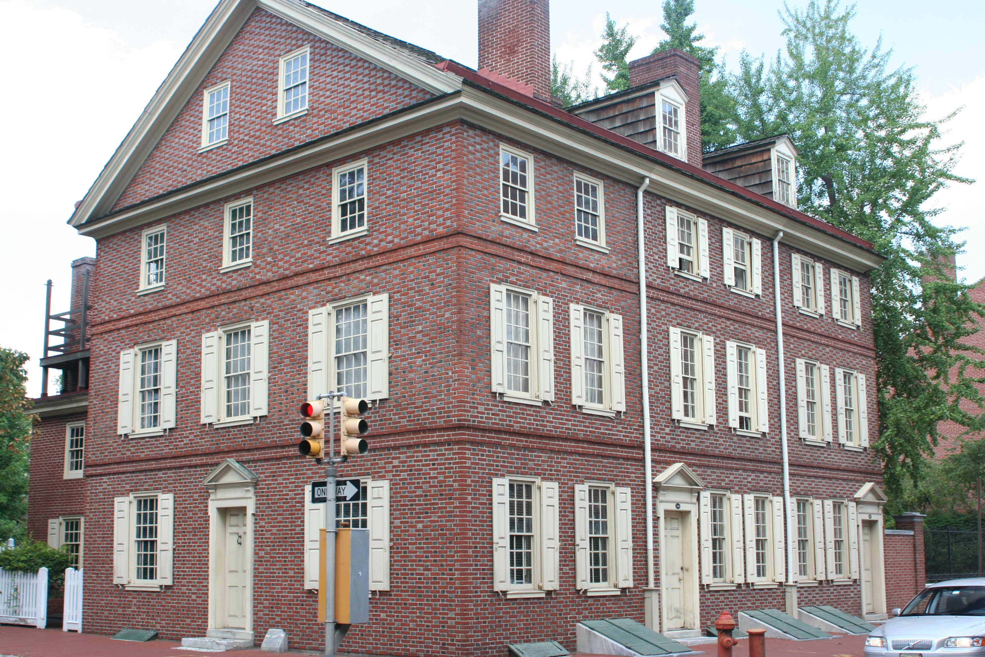 Todd House in Philadelphia, PA